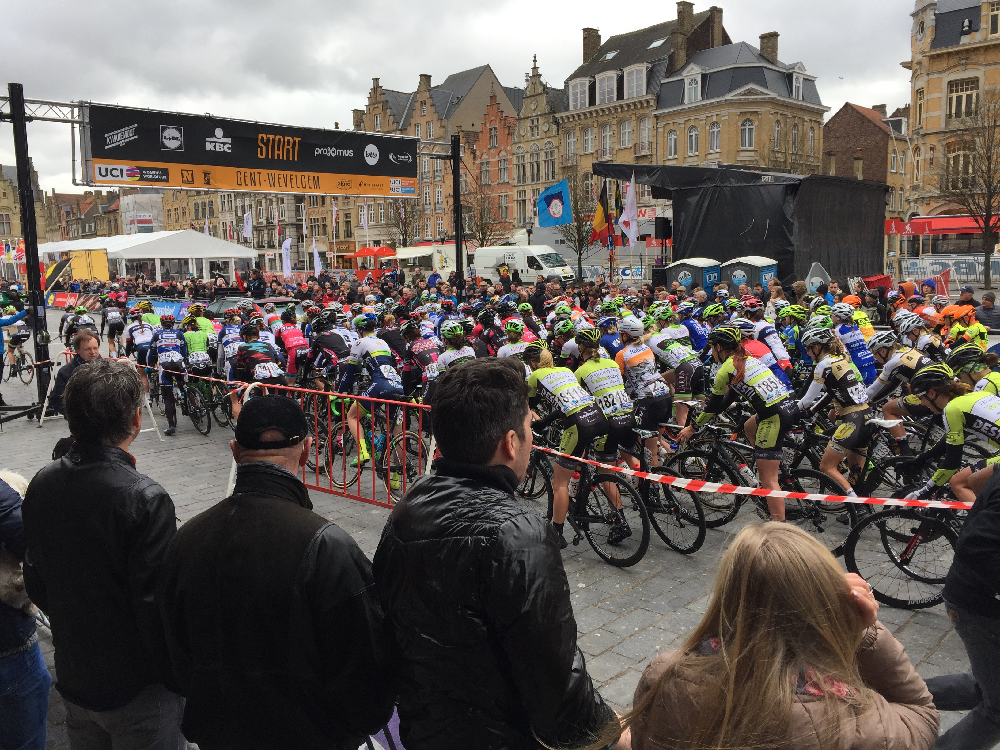 2016 Gent–Wevelgem (women)